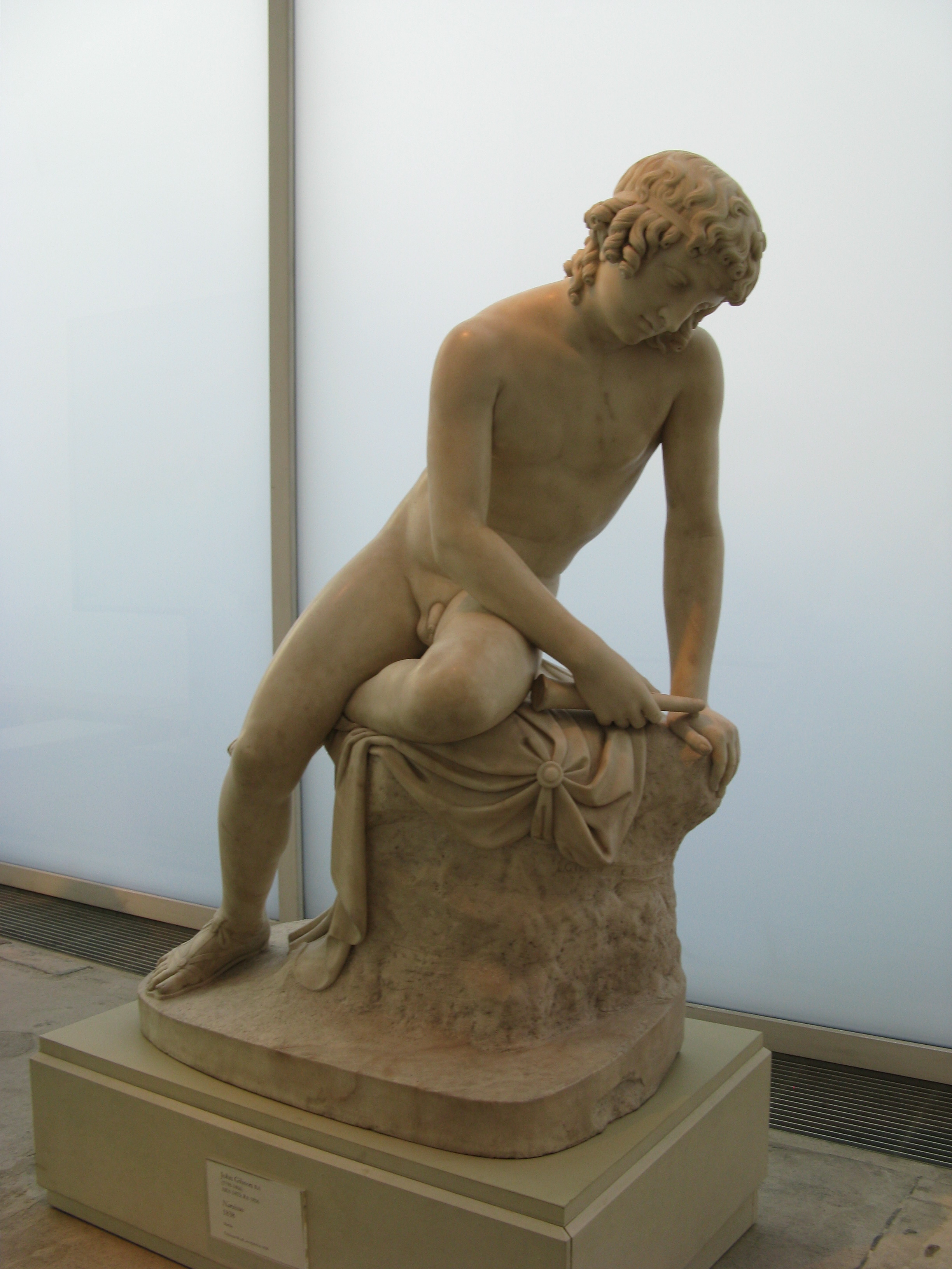 Narcissus by John Gibson at Royal Academy of Arts.